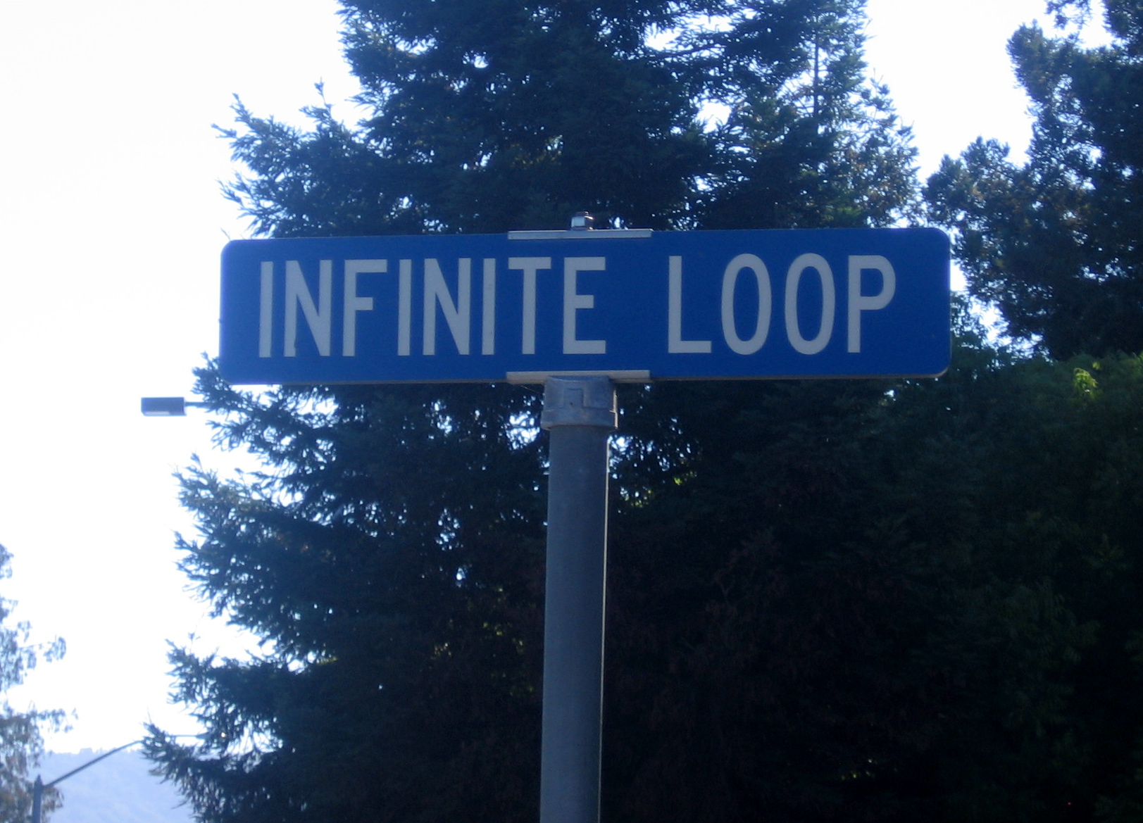 1 Infinite Loop, Cupertino, California. Home of Apple Inc. and one of Silicon Valley's best known streets.